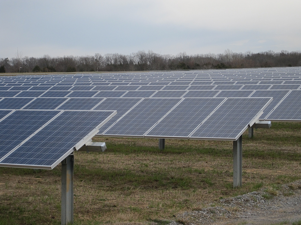 Memphis, Tennessee. Shelby Farms solar farm